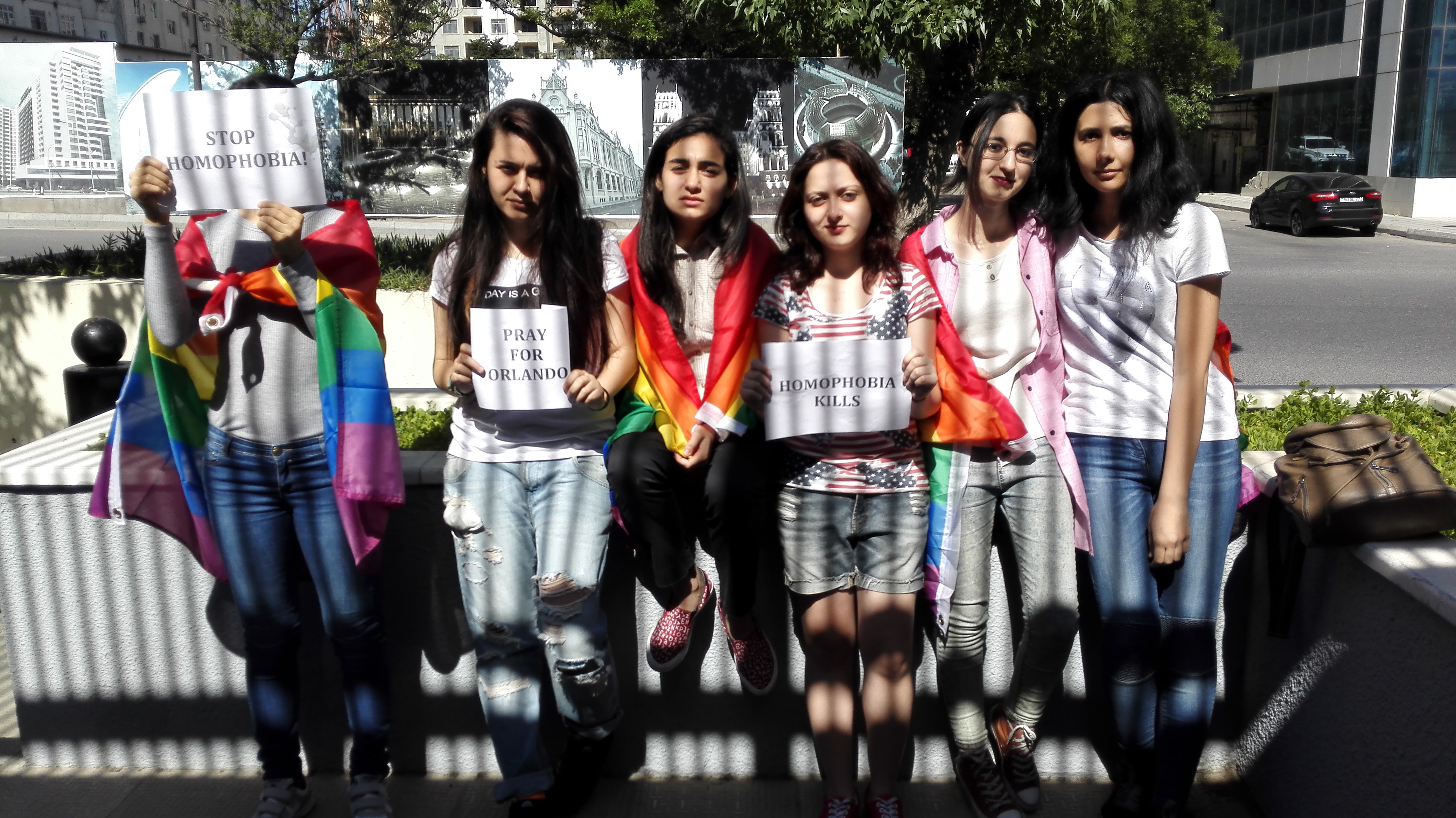 Baku vigil for Orlando